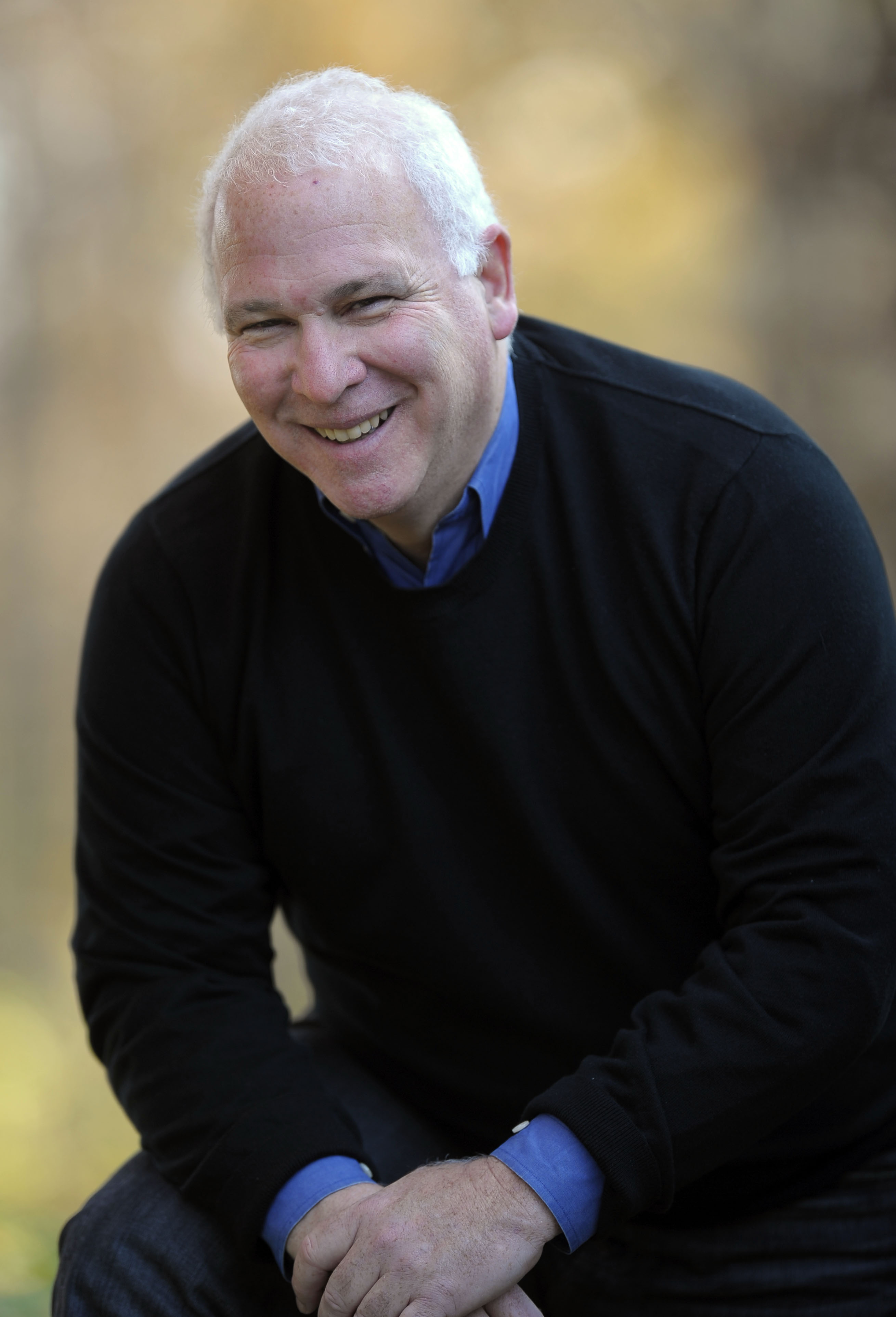 Portrait of Jonathan Coleman, vertical, daylight